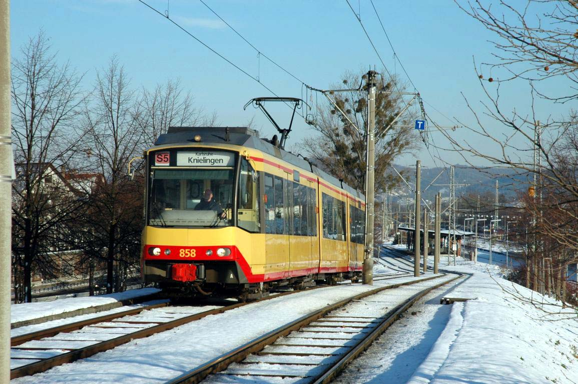 AVG car no. 858 of type GT8-100D, location: Karlsruhe-Durlach, train number: 84773